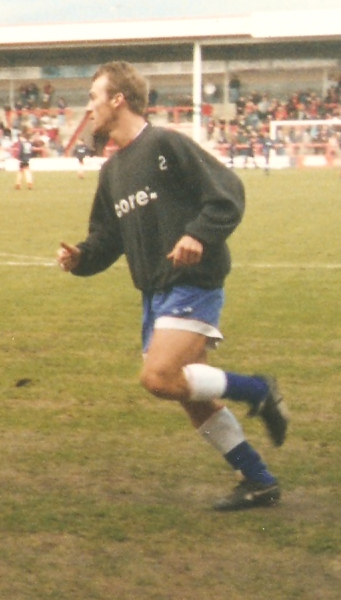 Lee Harvey warming up for Brentford v Walsall, 24 February 1996.